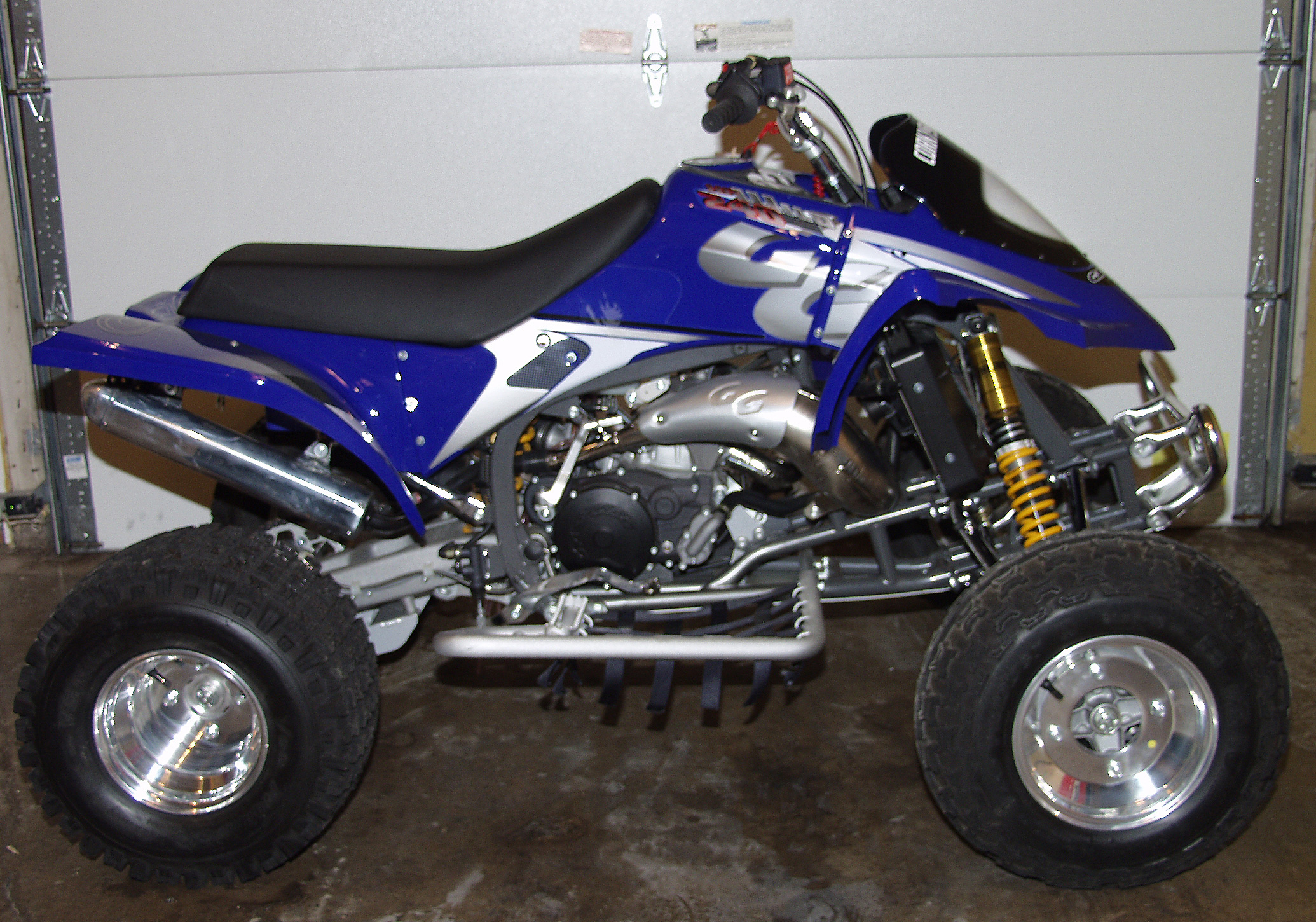 2005 Gas Gas WildHP 240